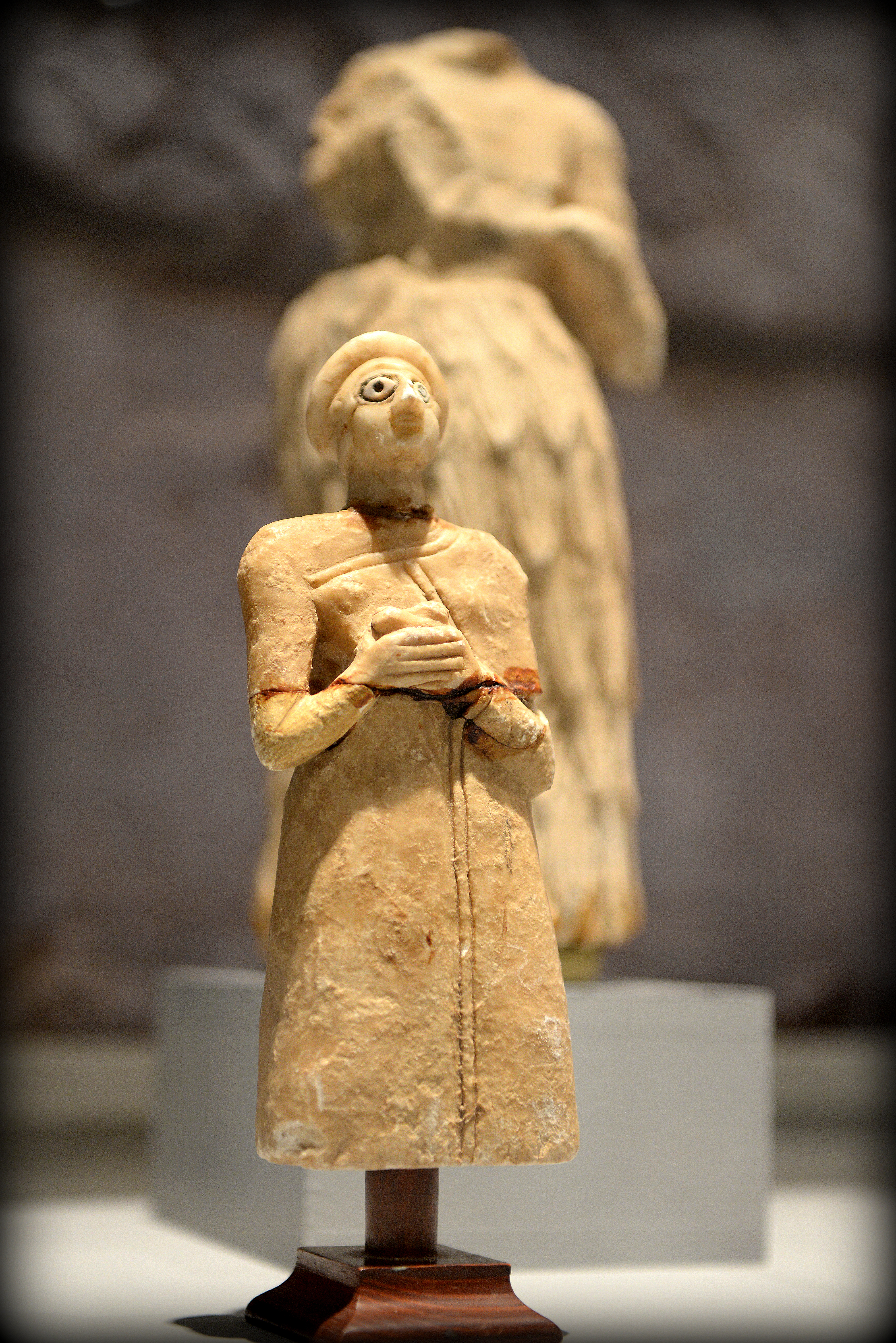 A statue of a Sumerian female worshiper. Alabaster. From Khafajah (ancient Tutub), Mesopotamia, Iraq. The head (excavation number: Kh. IV 288) was excavated by the Oriental Institute of the University of Chicago (4th season) in the 1930s. The head most probably does not belong to the torso. Early Dynastic III, 2400 BCE. Previously in the Iraqi Museum in Baghdad, now in the Sulaymaniyah Museum, Iraq.